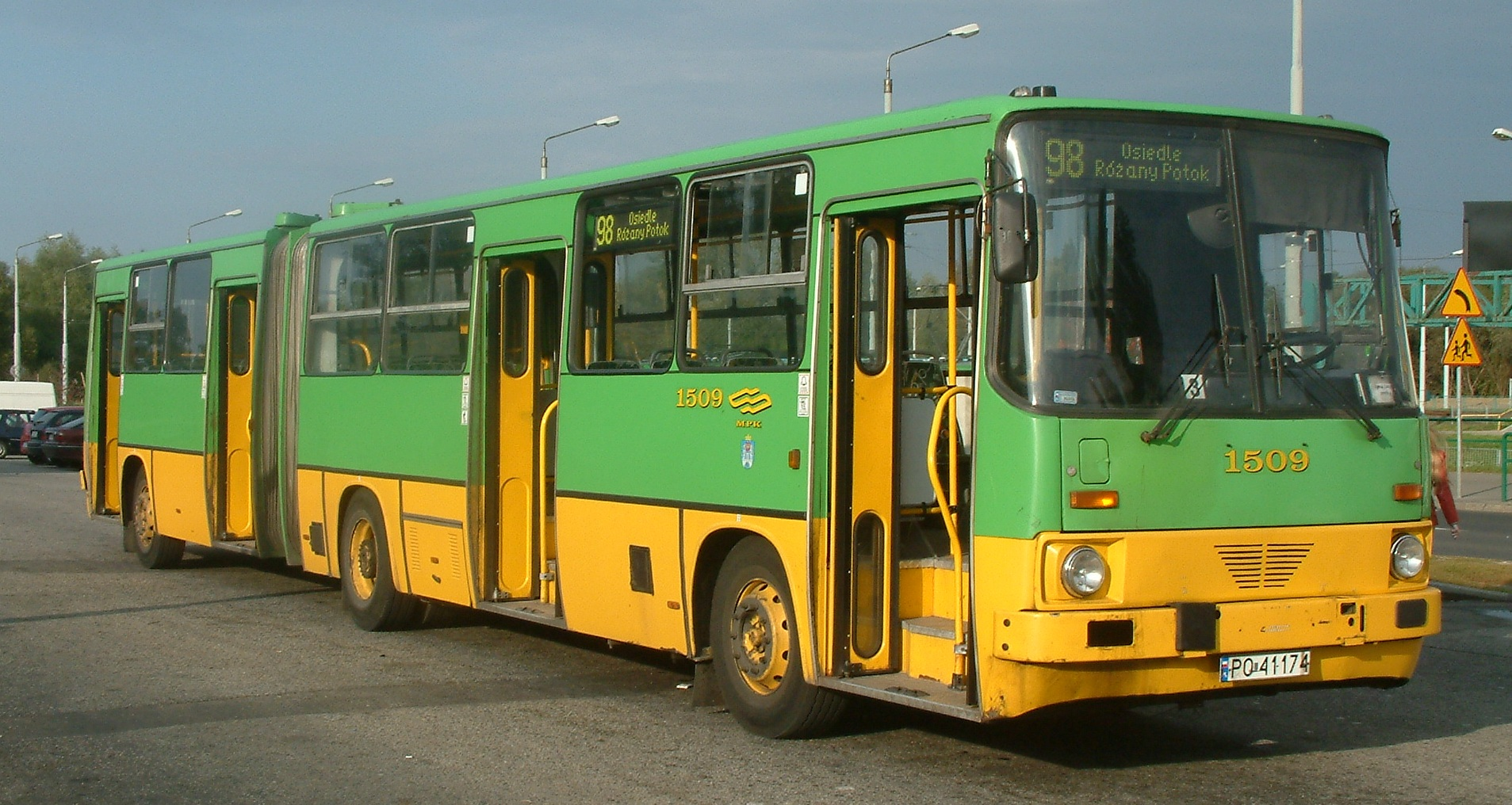 Ikarus 280.26 bus (#1509) in Poznań, Poland. Built 1990. MPK Poznań operator.